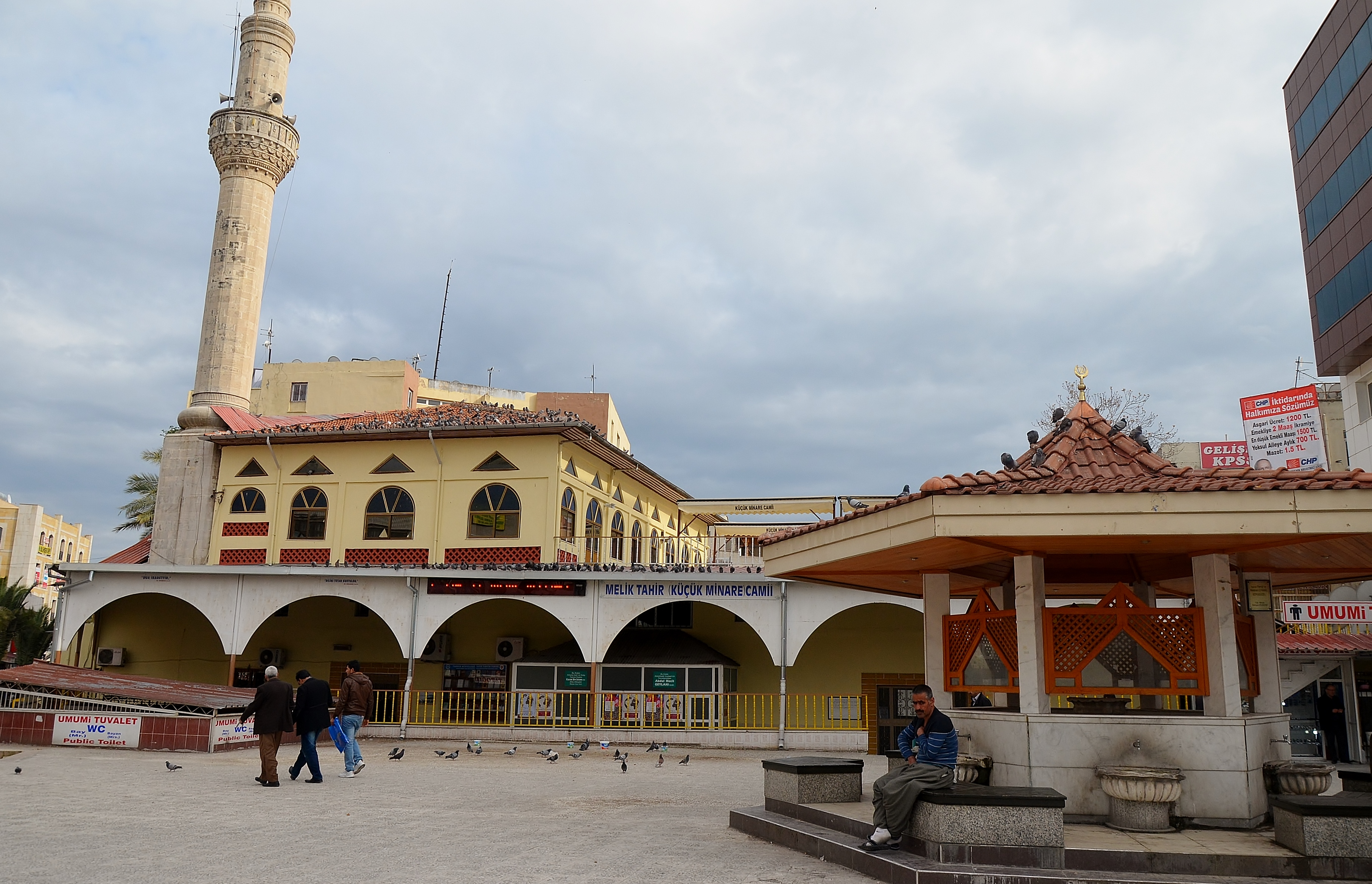 Küçük Minare Mosque in Tarsus, Mersin